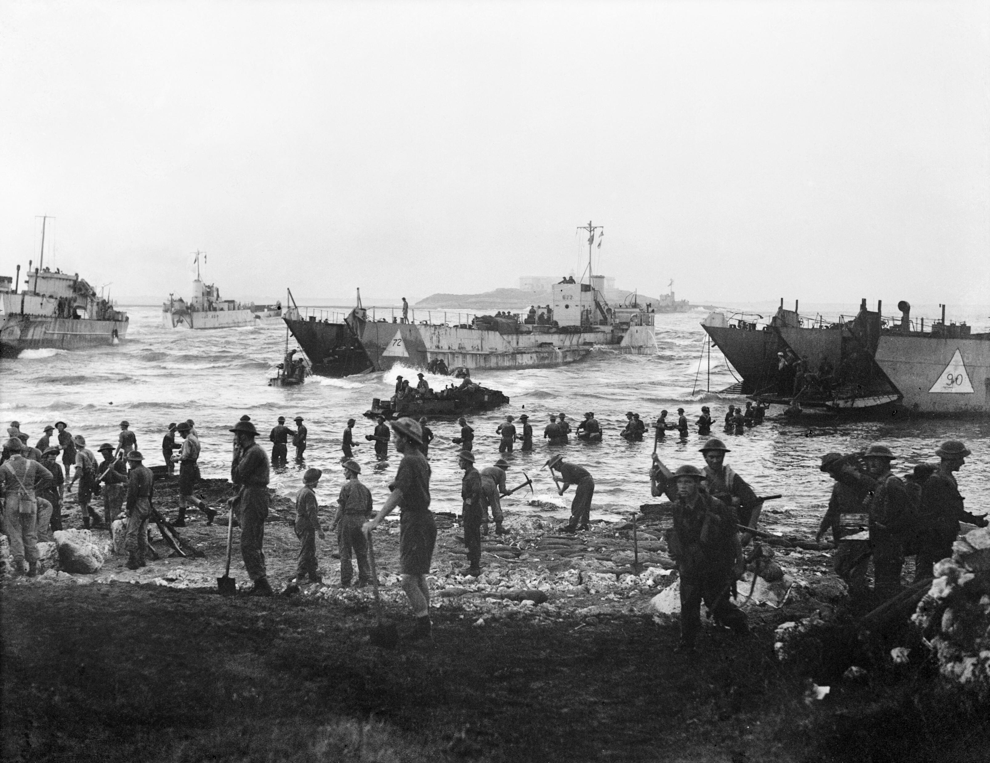 Troops from 51st Highland Division unloading stores from tank landing craft on the opening day of the Allied invasion of Sicily, 10 July 1943. Just after dawn, men of the Highland Division up to their waists in water unloading stores on a landing beach on the opening day of the invasion of Sicily. Meanwhile beach roads are being prepared for heavy and light traffic. Several landing craft tank can be seen just of the beach (including LCT 622).